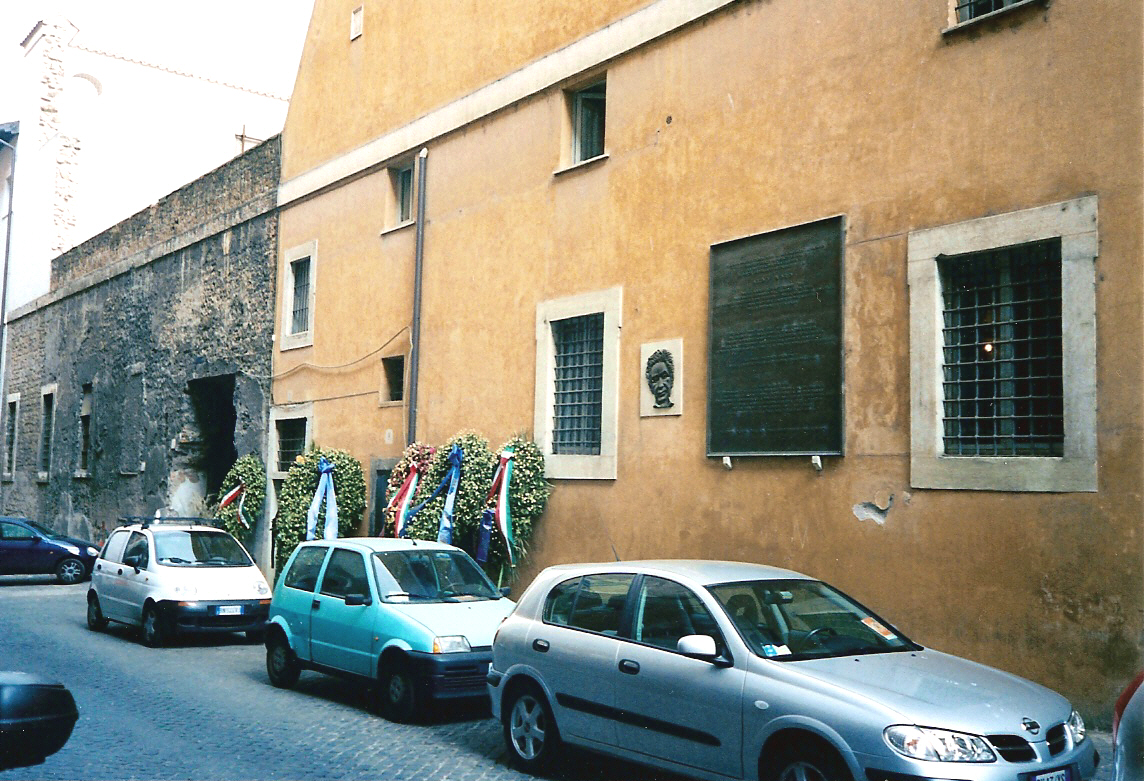 Memorial to Aldo Moro, Via Michelangelo Caetani, Roma. Picture by Torvindus.